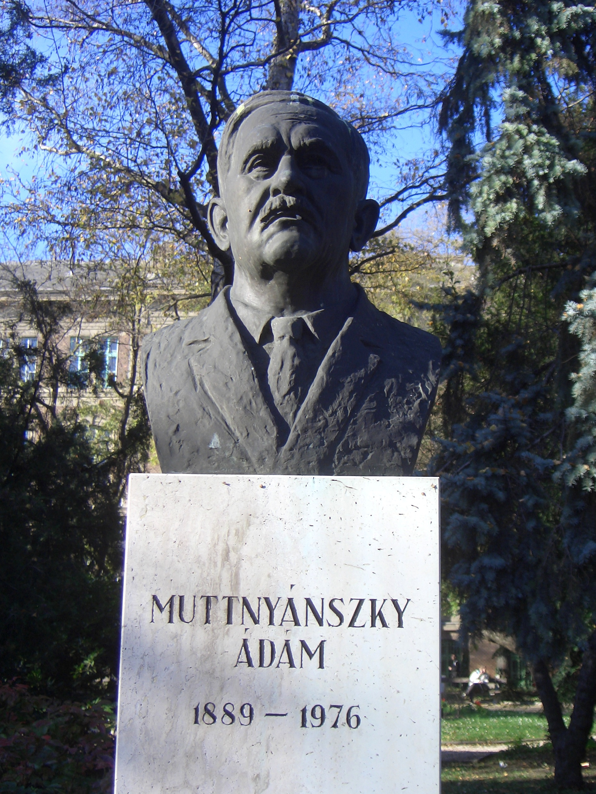 Memorial of Prof. Ádám Muttnyánszky (1889-1976) Mechanical Engineer, Professor of the Budapest Technical University.